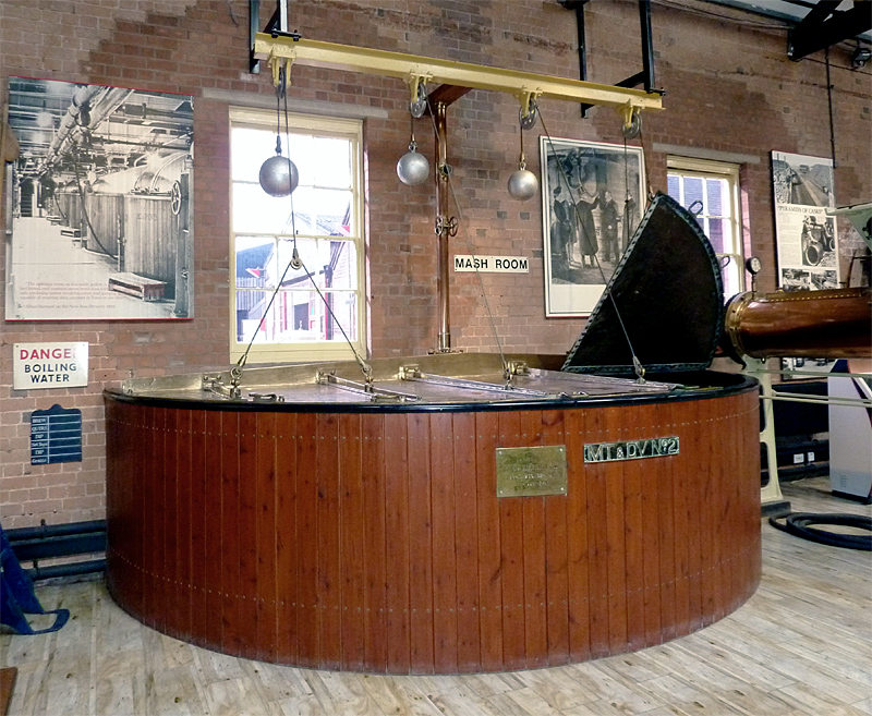 Mash Tun exhibit in the Brewery Museum at Burton-upon-Trent